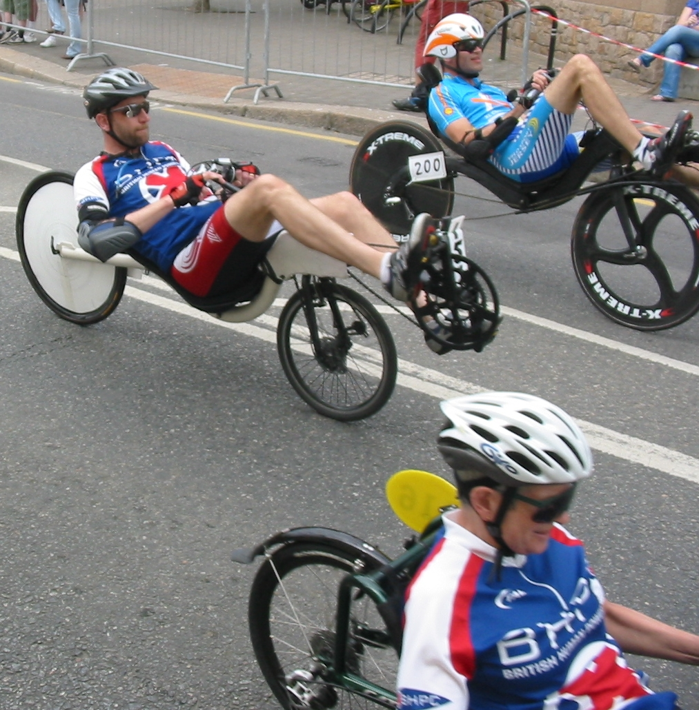 Jersey Town Criterium bicycle races, Saint Helier, Jersey, 24 May 2009